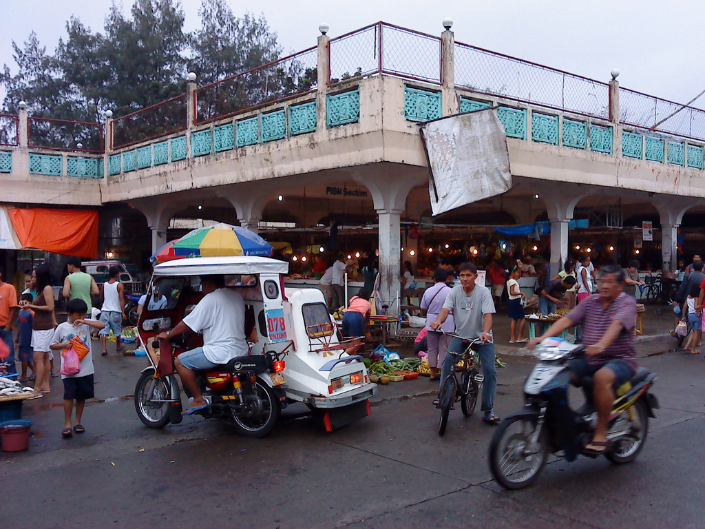 Public market of Vinzons, Camarines Norte, Philippines